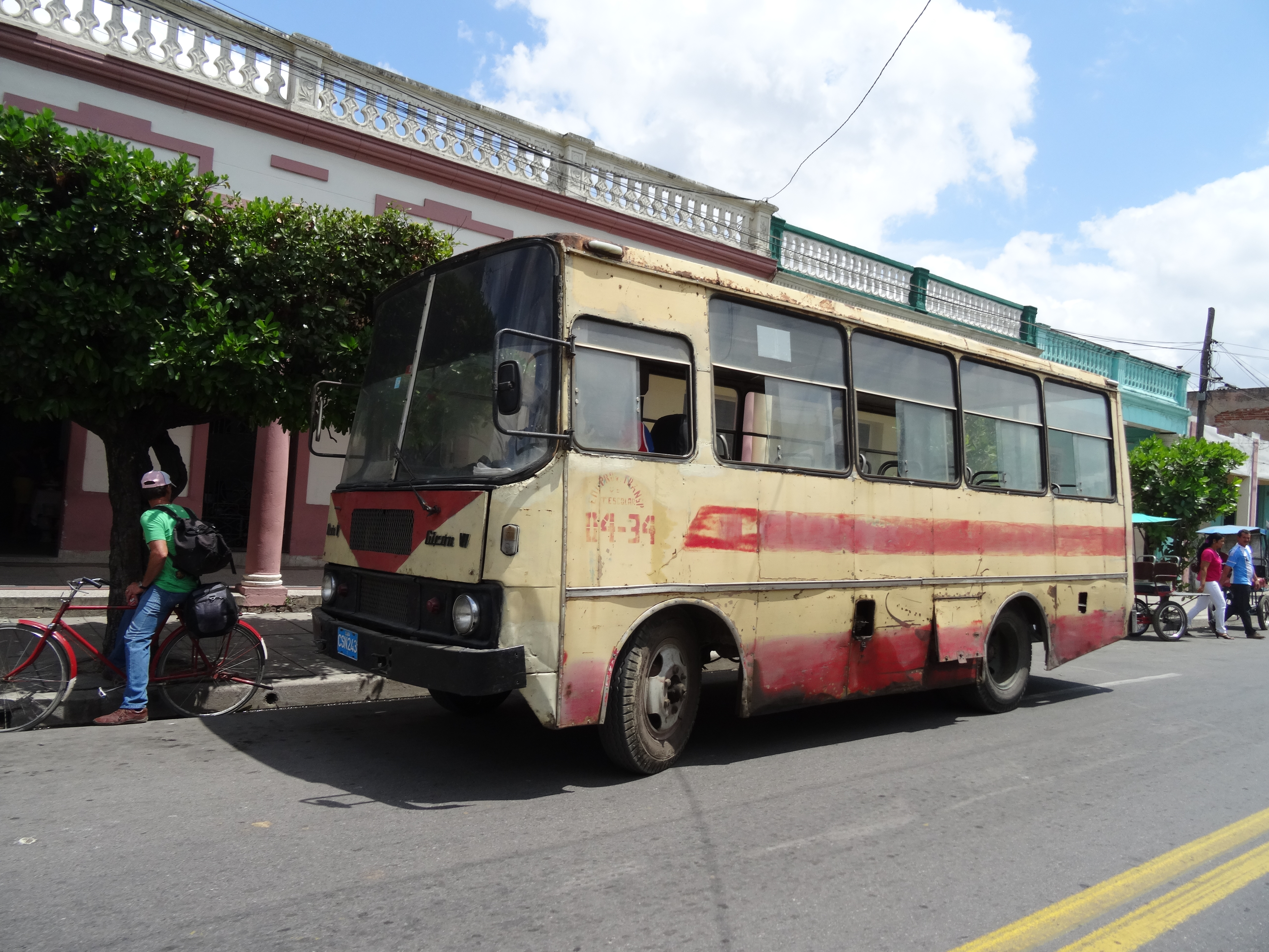 Cuba, Camaguey, Girón VI